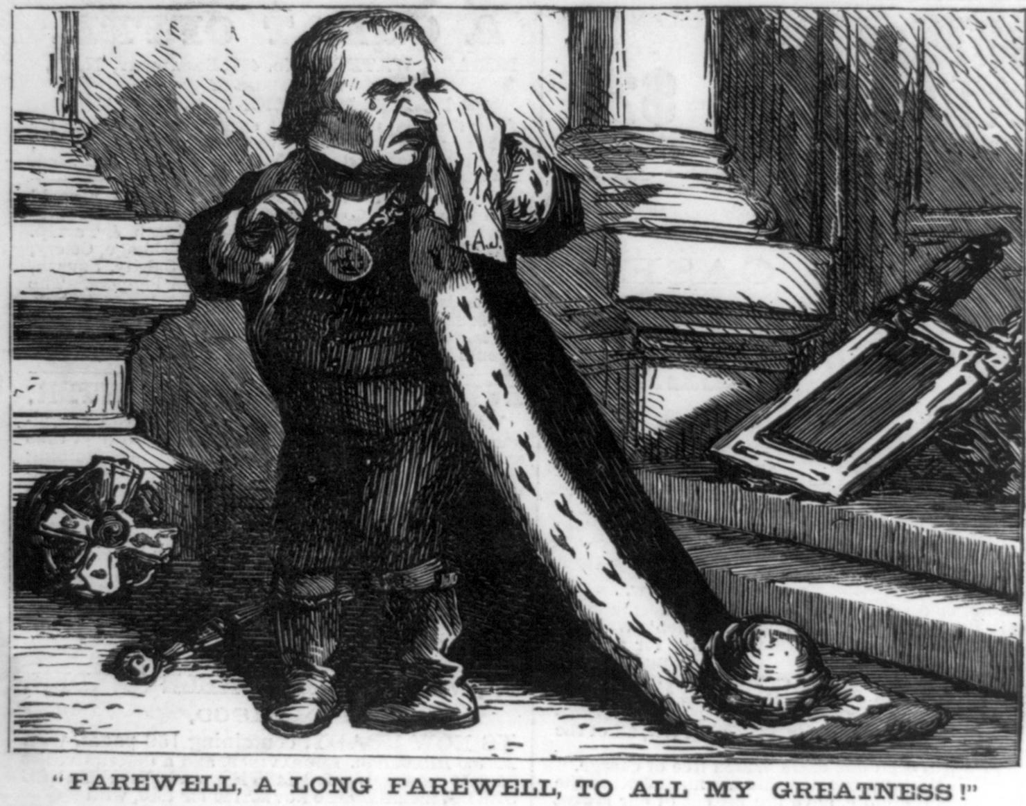 "Farewell, a long farewell, to all my greatness!" Caricature showing Andrew Johnson, dressed as a king, crying. Illus. in: Harper's Weekly, 1869 March 13, p. 176.